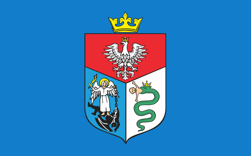 Flag of Sanok